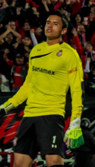 Mexican footballer Alfredo Talavera